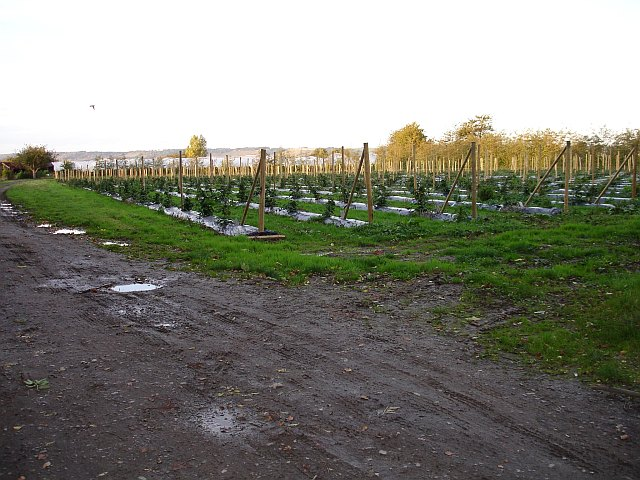 Raspberry canes and polytunnels. North of Avery Lane at Otham Hole.